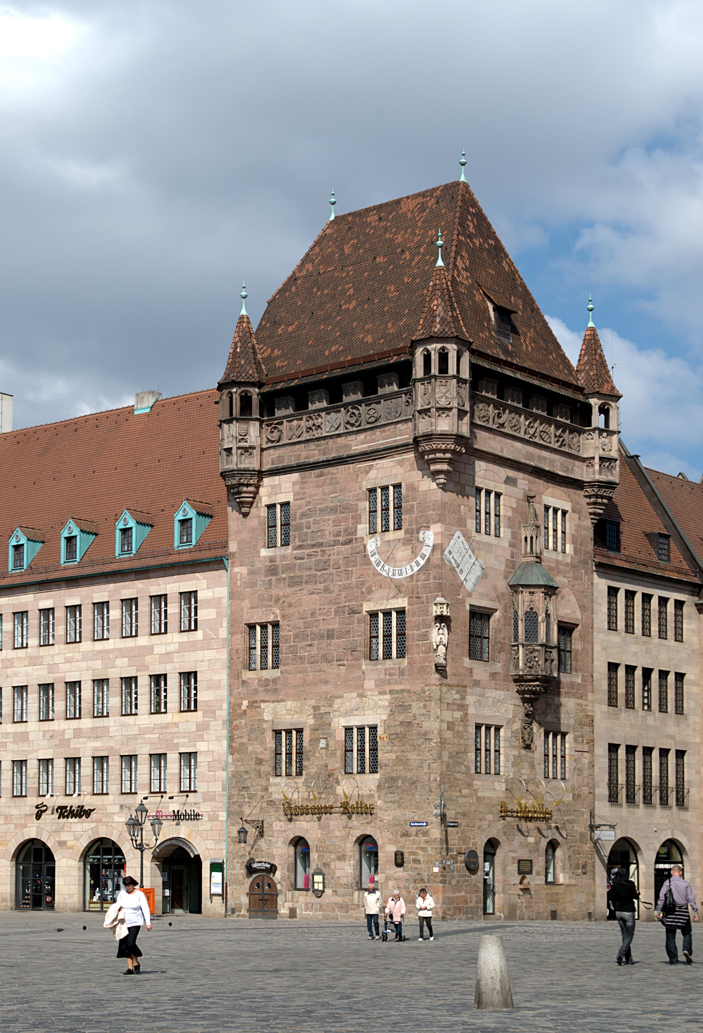 The "Nassauer House" in Nuremberg, Germany